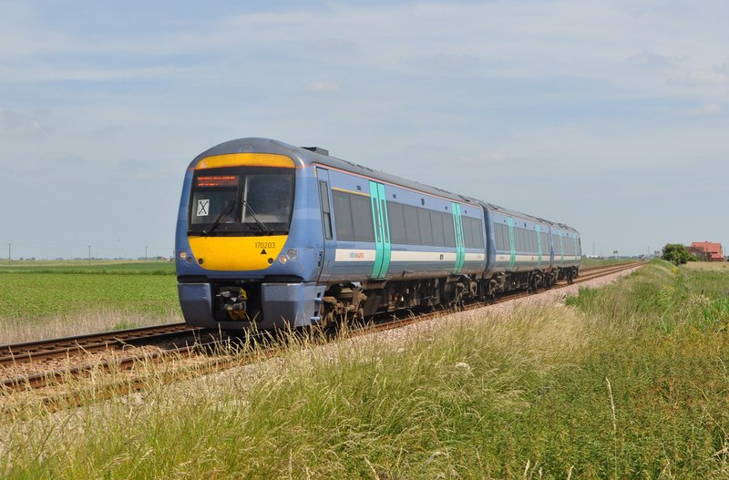 Train Speeds towards Peterborough, near to Turves, Cambridgeshire, Great Britain. Class 170/2 No. 170203 speeds towards Three Horse Shoes signal box on its way to Peterborough via Ely on 23rd June 2010.